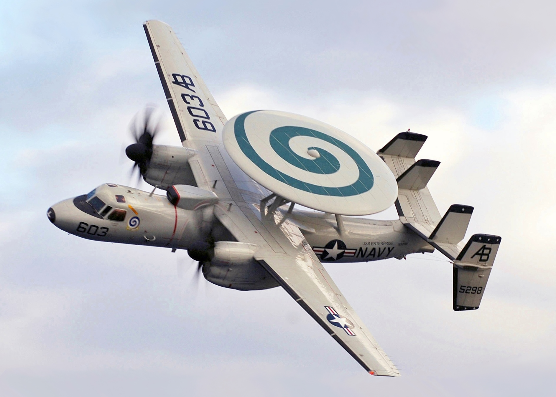 An E-2C Hawkeye, attached to the "Screwtops" of Carrier Airborne Early Warning Squadron (VAW) 123, performs a fly-by for family and friends of crew members during an air power demonstration held by the nuclear-powered aircraft carrier USS Enterprise (CVN-65) during a three-day Tiger Cruise. Enterprise and embarked Carrier Air Wing (CVW) 1 were on a scheduled six-month deployment.